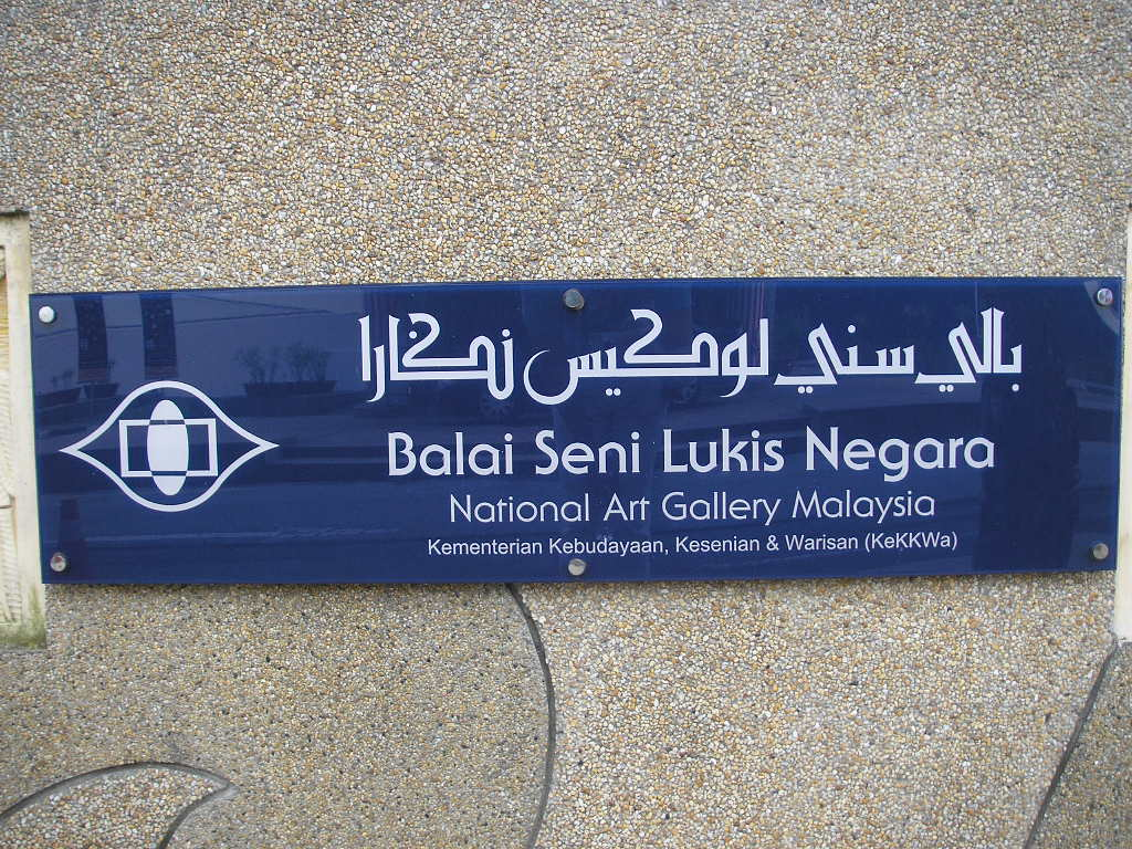 Plaque of the National Art Gallery of Malaysia, in Kuala Lumpur.